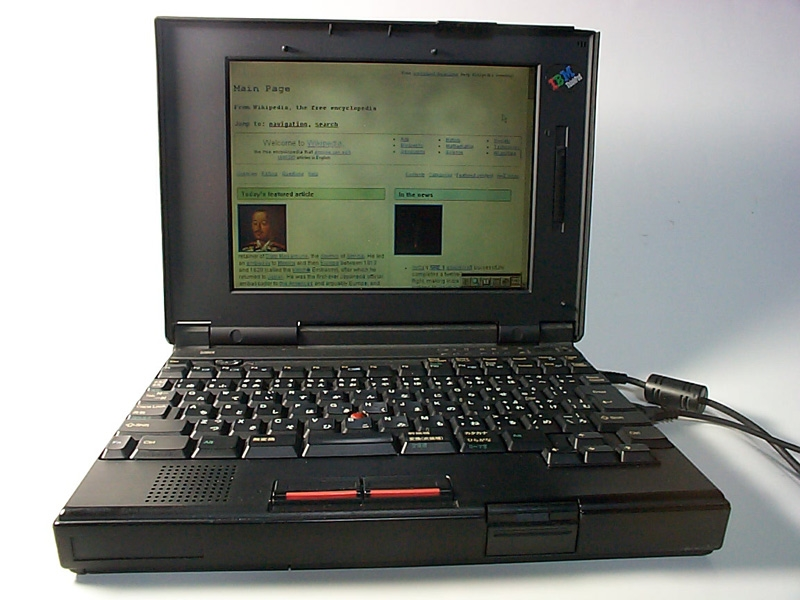 Personal Computer ThinkPad_530cs_IBM Japan